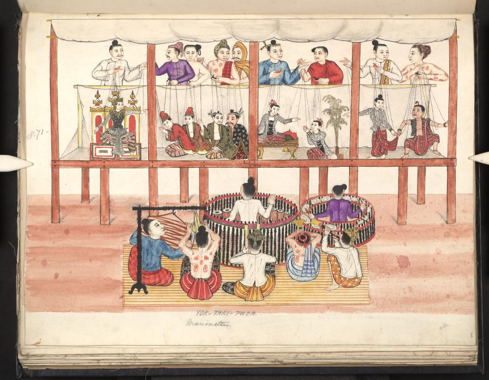 Watercolour painting by an unknown Burmese artist depicting 19th century Burmese life. Text: YOK-THAY-PWEH Marionettes. Shelfmark: Ms. Burm. a. 5